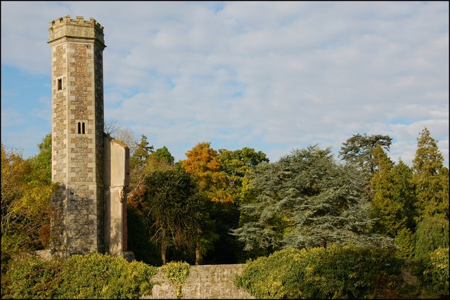 Antrim Castle (ruin) The 17th century Antrim Castle was destroyed by fire in 1922. This Italian tower, built in 1887, is all that remains.